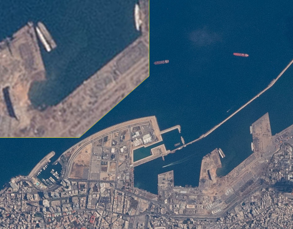 Port in Beirut, Lebanon is pictured soon after the powerful blast from the International Space Station as it orbited above southeastern Syria. The original image has been rotated 115 degrees CW, centered at the explosion crater and cropped, and a closeup of the epcienter was added at the top right angle